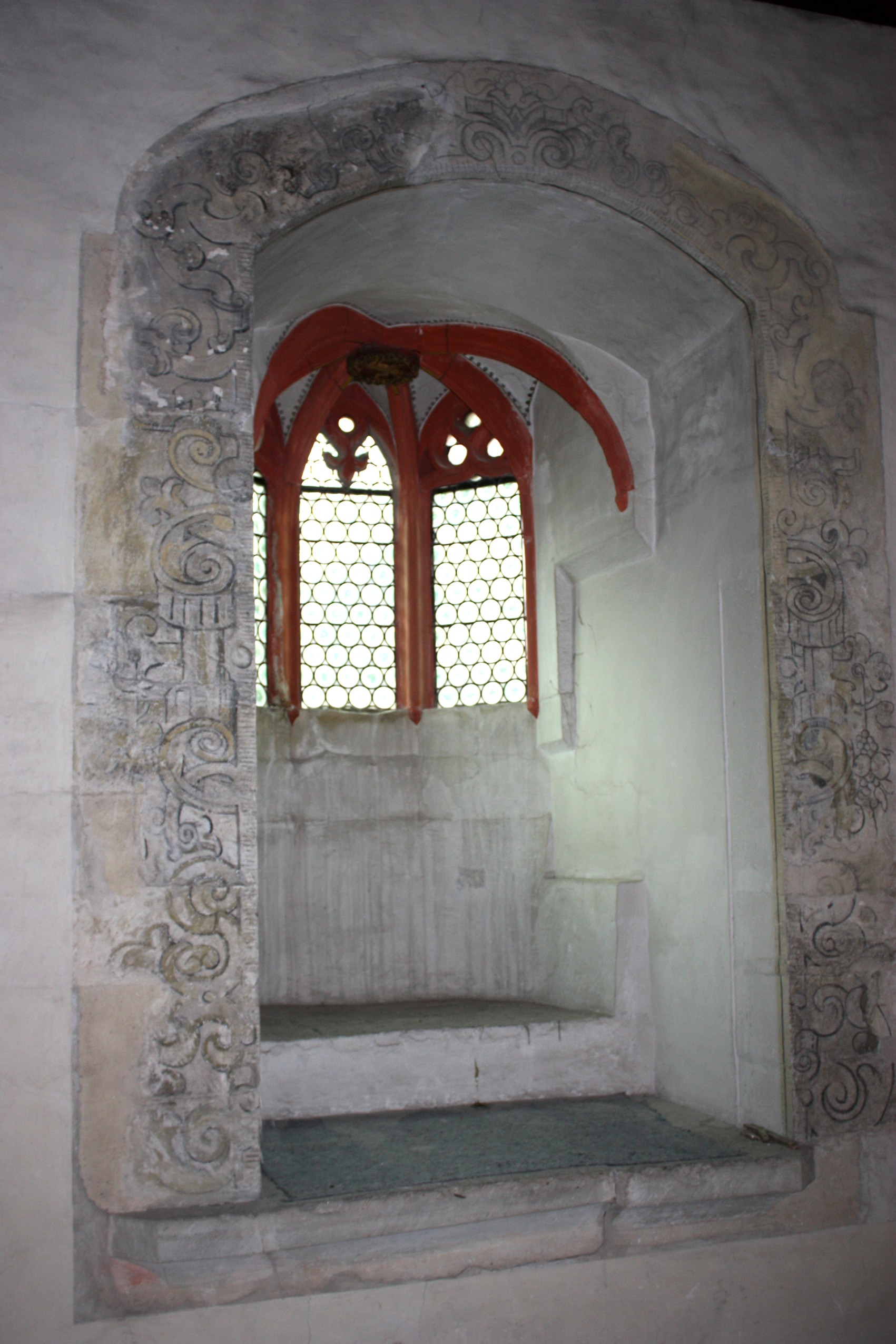 Erfurt, Laasphe-Chapel, bay window This is a photograph of an architectural monument. 11